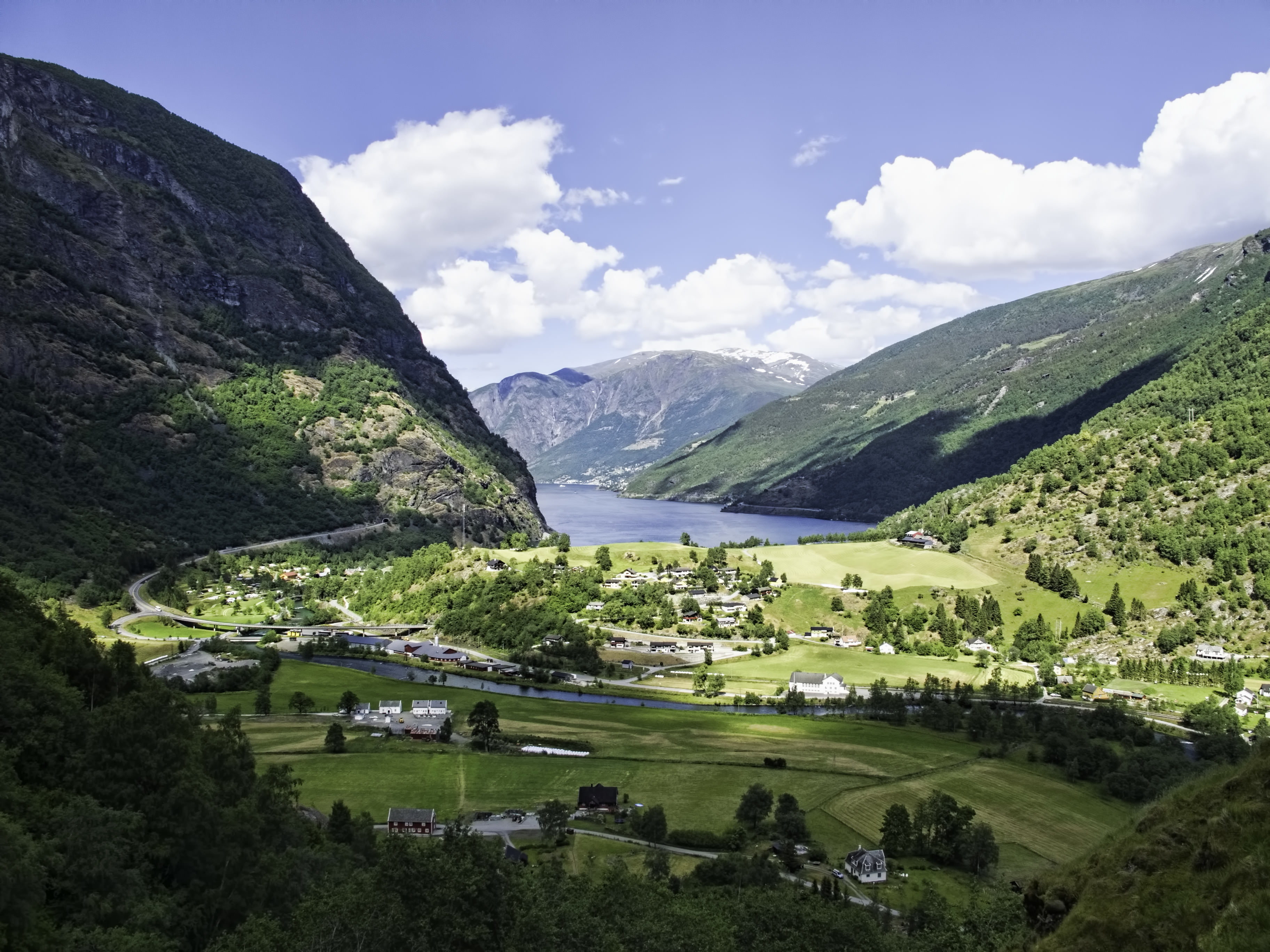 Looking back down the Flåmsdalen valley towards Aurlandsfjord from Brekkefossen waterfall. The tiny town of Flåm (pronounced ‘flome’) is just out of sight below the edge of the fields at the head of Aurlandsfjord. On Google Earth: Flåm on Aurlandsfjord 60°51'49.08"N, 7° 6'55.68"E Brekkefossen waterfall 60°51'7.98"N, 7° 5'59.06"E